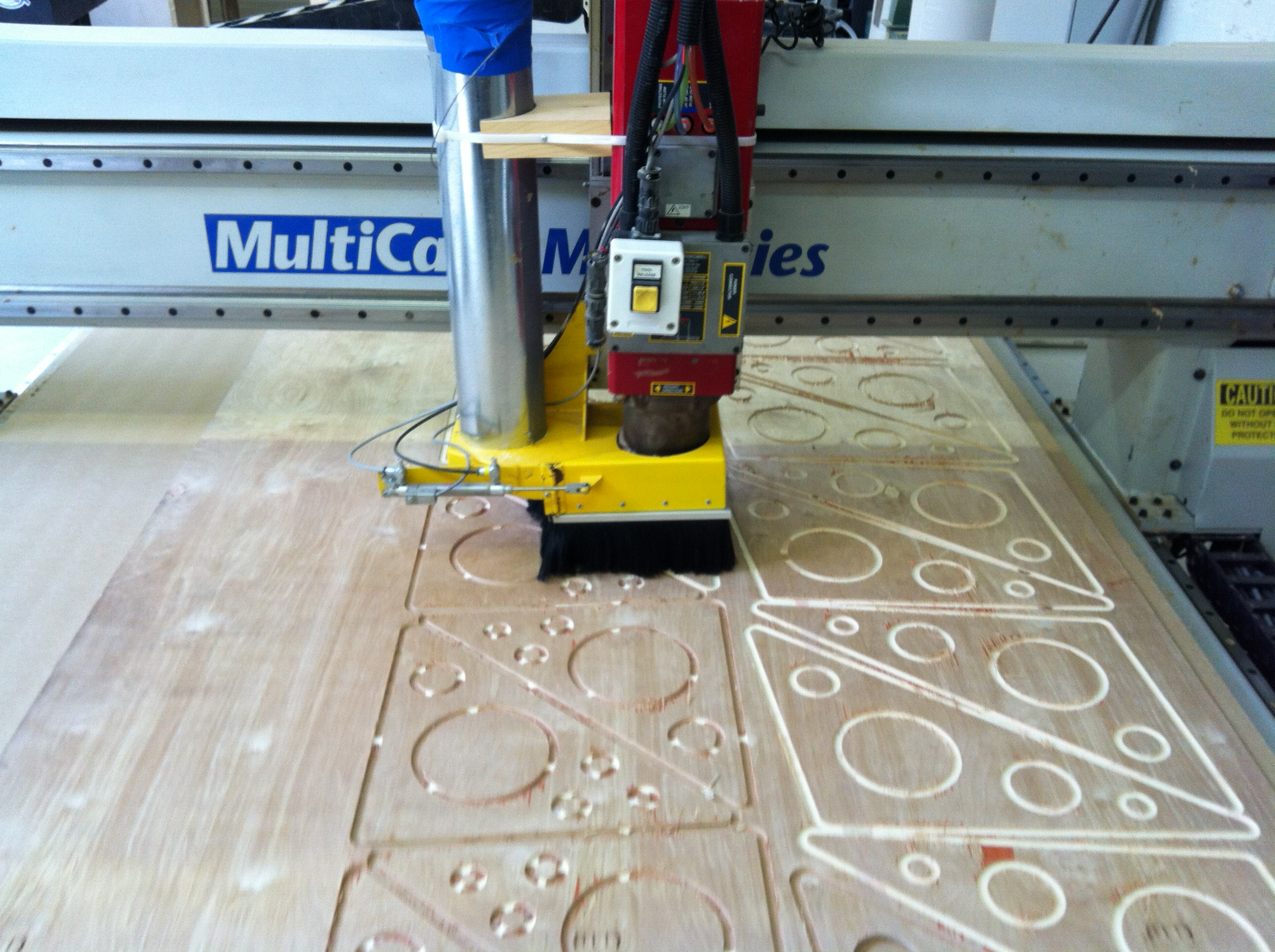 Leg parts being cut